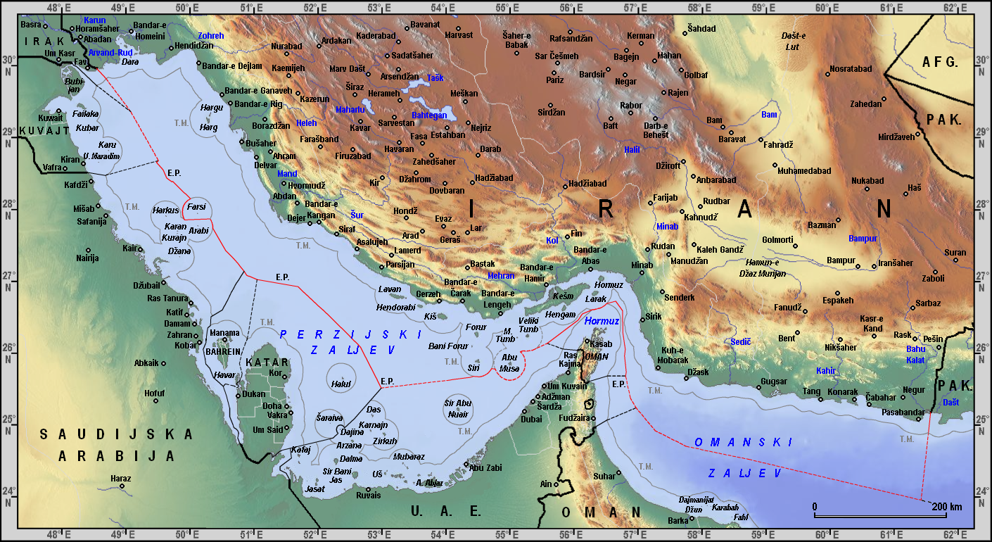 Iranian maritime borders in Gulf of Oman and Persian Gulf with Croatian descriptionHrvatski: Iranske morske granice u Omanskom i Perzijskom zaljevu